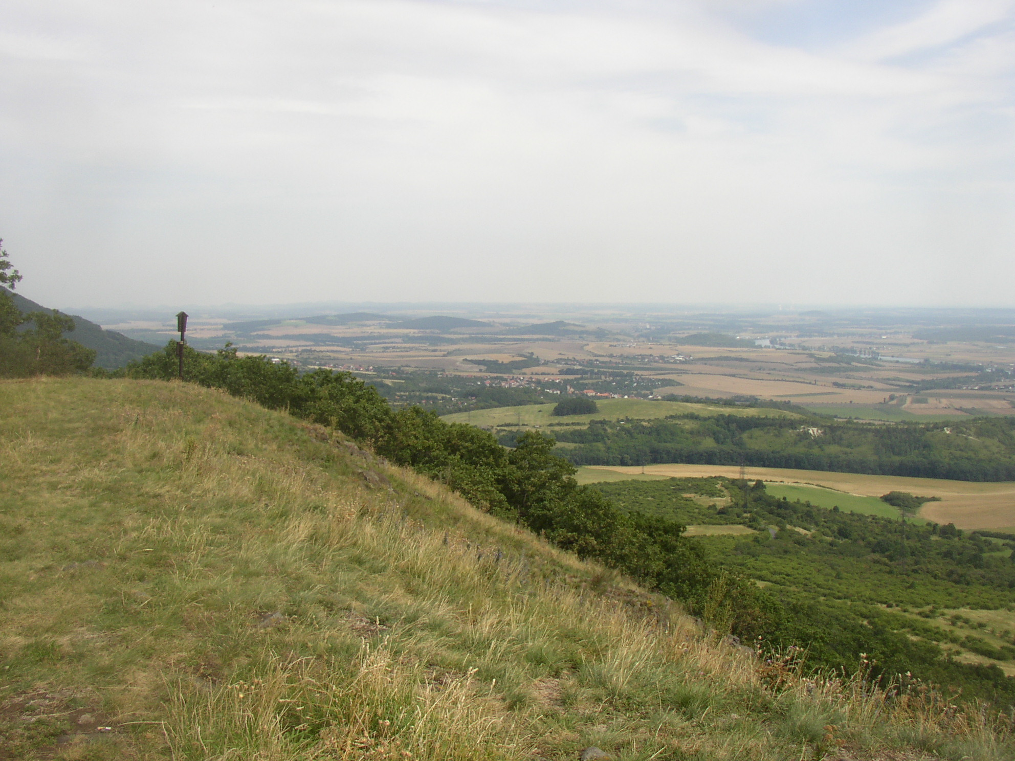 České středohoří, Czech Republic. A view from Hradiště (545 m) towards southeast.